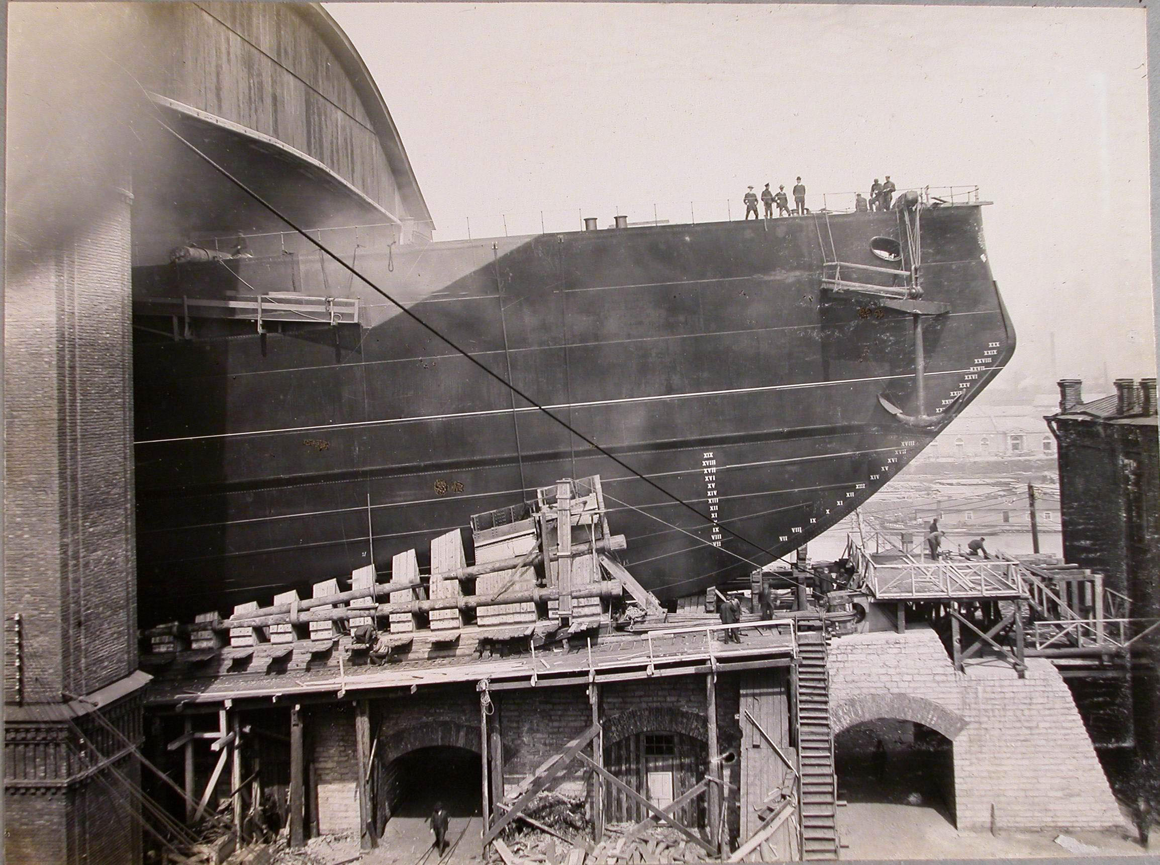 The bow extremity of a Gangut-class battleship Poltava, protruding from covered-in building slipway